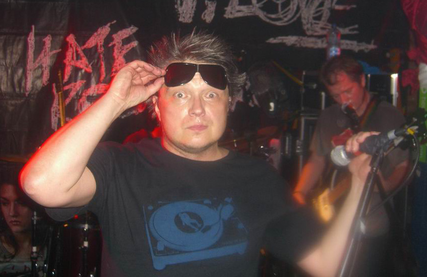 Zygmunt "Muniek" Staszczyk with T.Love in "Rura", Częstochowa, Poland ('centered' version)